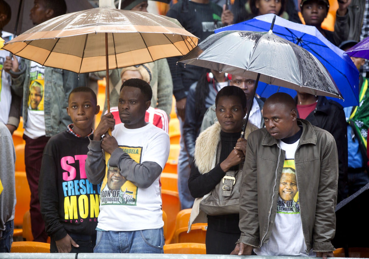 South Africans listen as President Obama delivers remarks at the Nelson Mandela memorial service. (Official White House Photo by Pete Souza)